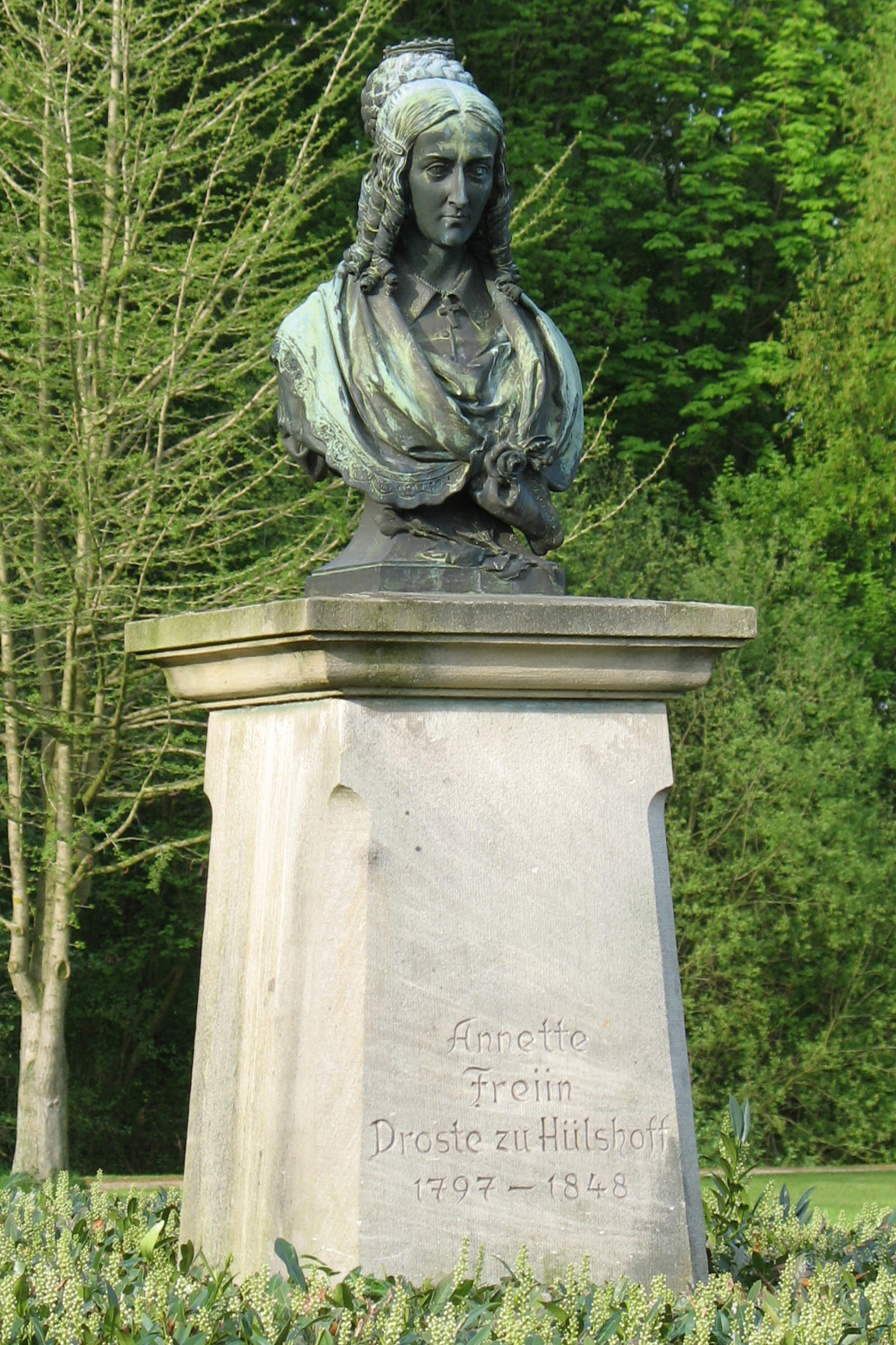 Monument for the German poetess Annette von Droste-Hülshoff in the garden of castle Hülshoff at Havixbeck, Germany (1896)